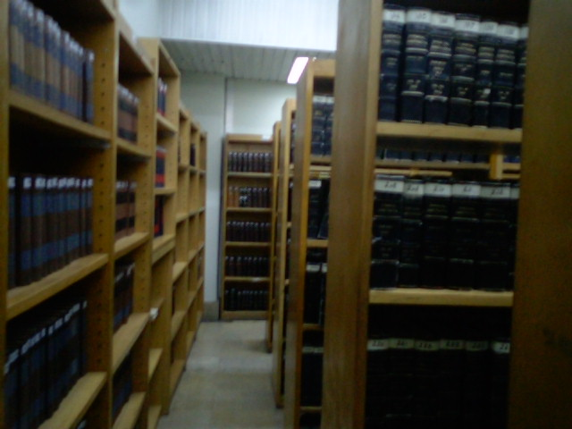 library of pharmacy faculty of TUMS